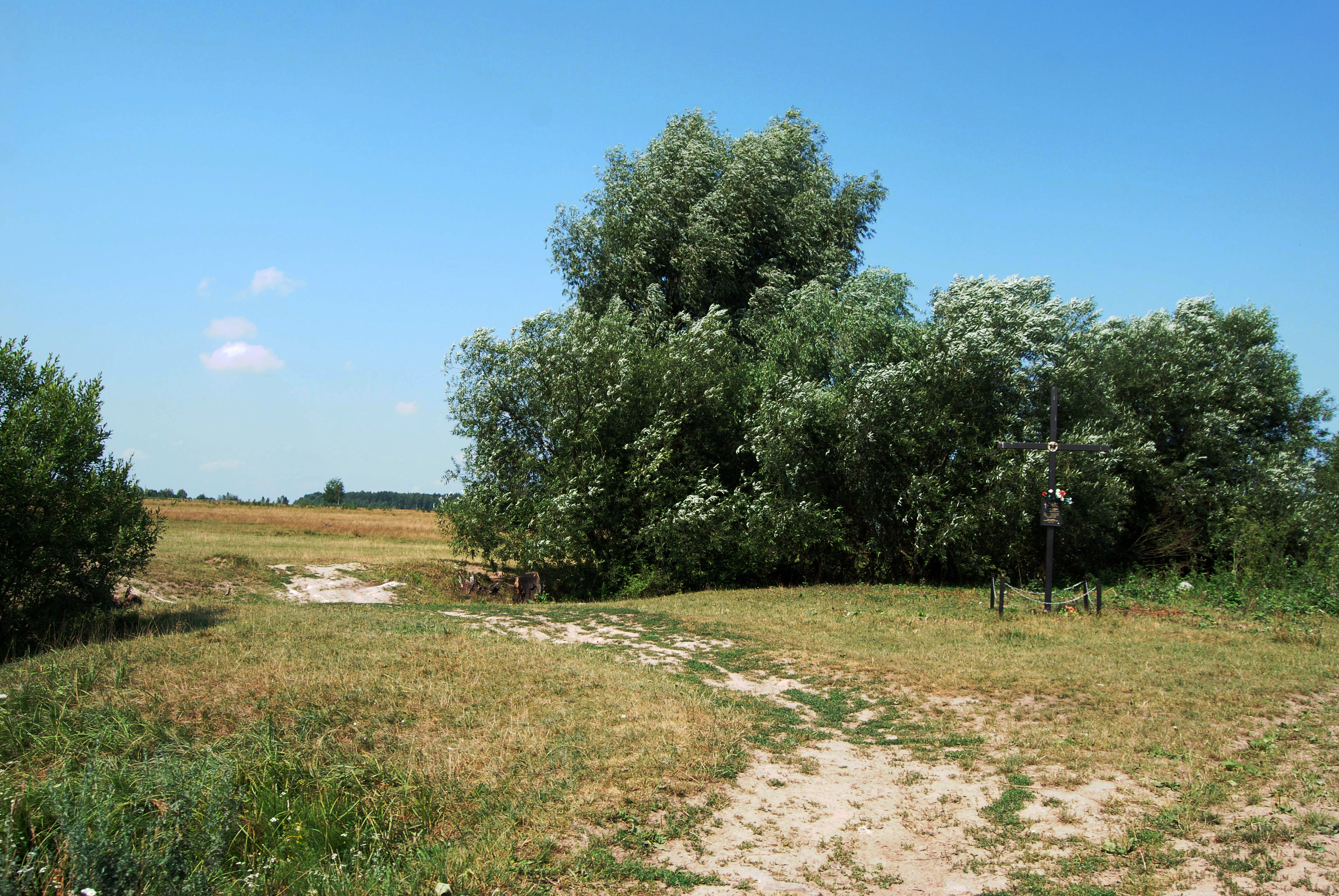 The cross by the road from Wyrka to Soszniki.